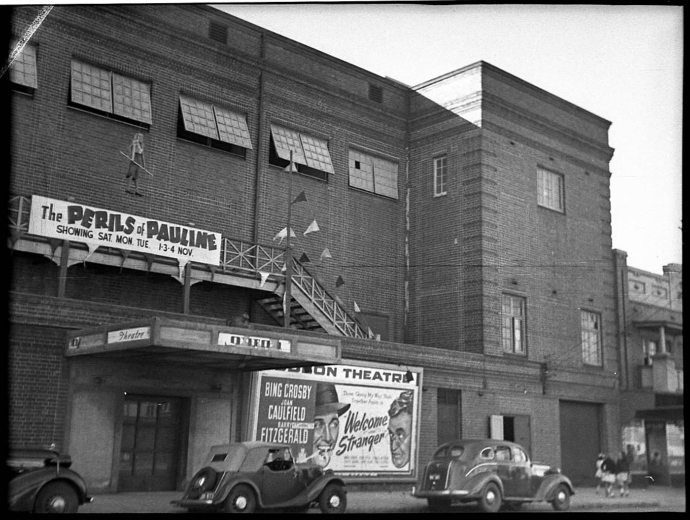 "Perils of Pauline", Drummoyne Odeon